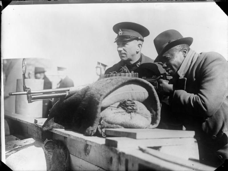 Gunnery School For Inter-allied Merchant Seamen. 1 and 2 April 1942, Liverpool. A West Indian Merchant Seaman firing a Lewis Gun.